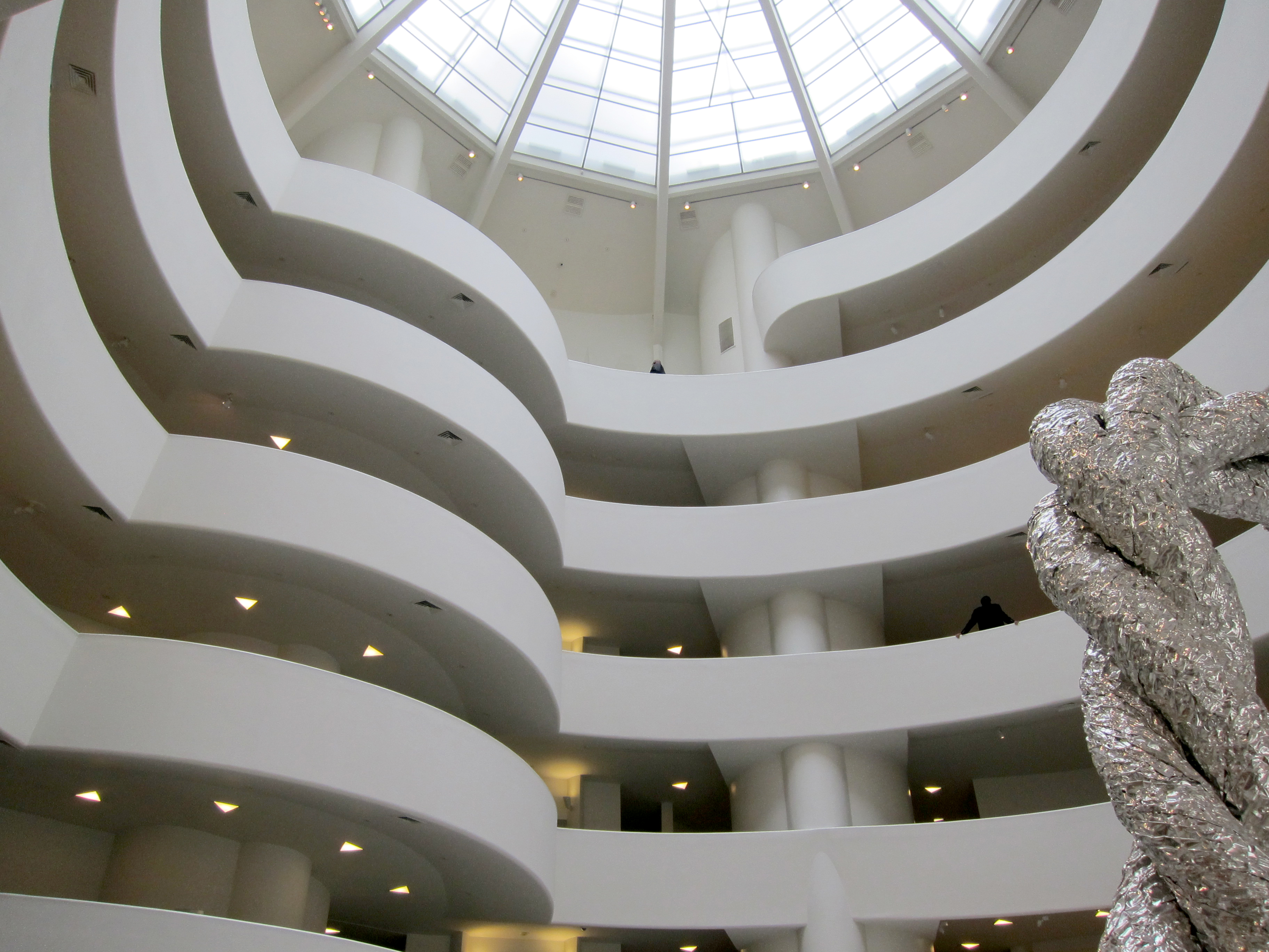 The inside of the Solomon R Guggenheim museum in Manhattan. Taken from the large open area on the ground floor, you can see the museum's unique design as the floor slowly ramps up around the edge of the museum, creating many levels for people to walk through. The work "Sphinx Grin Two" by John Chamberlain can be seen in the foreground.